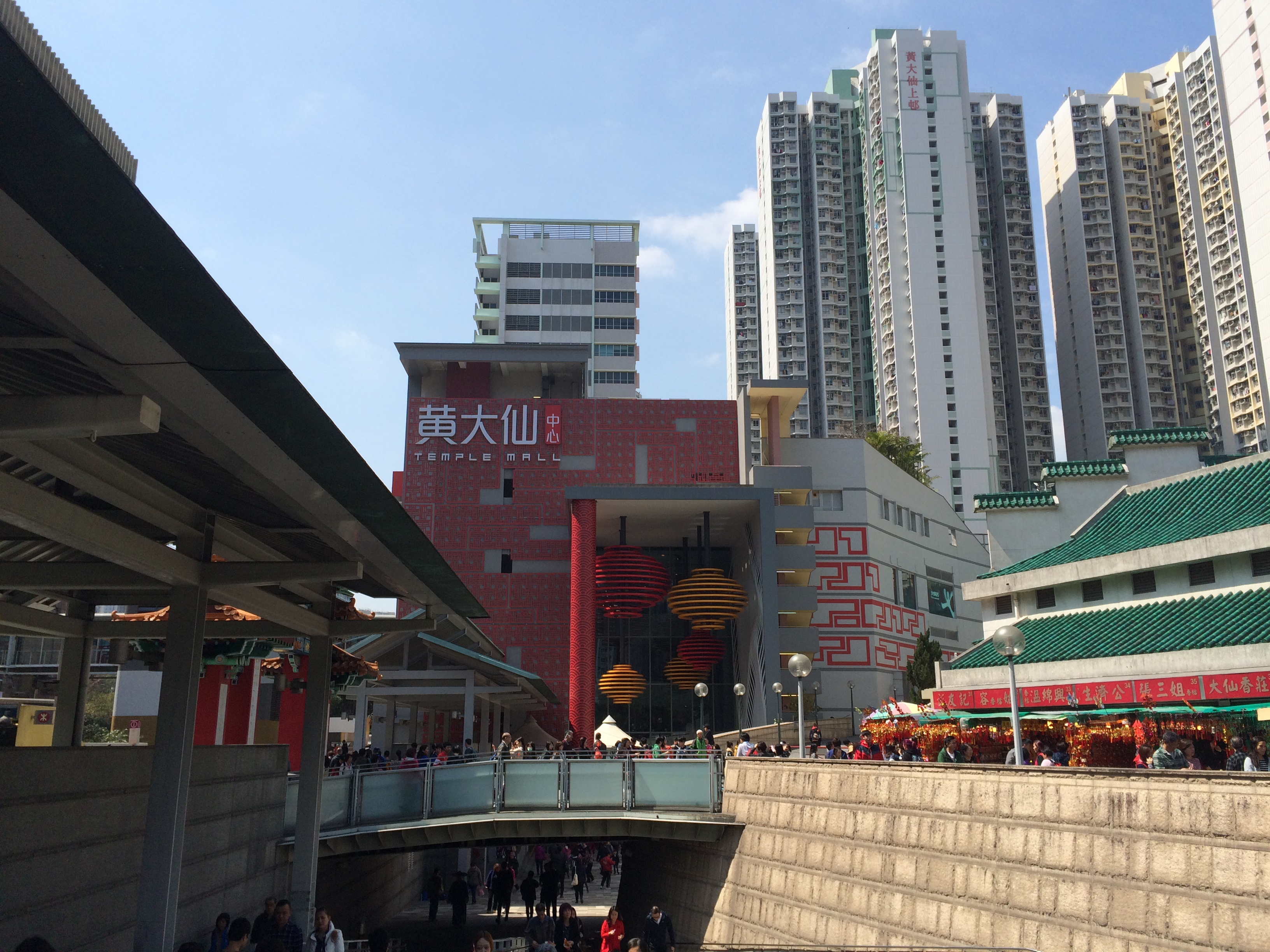 Temple Mall North